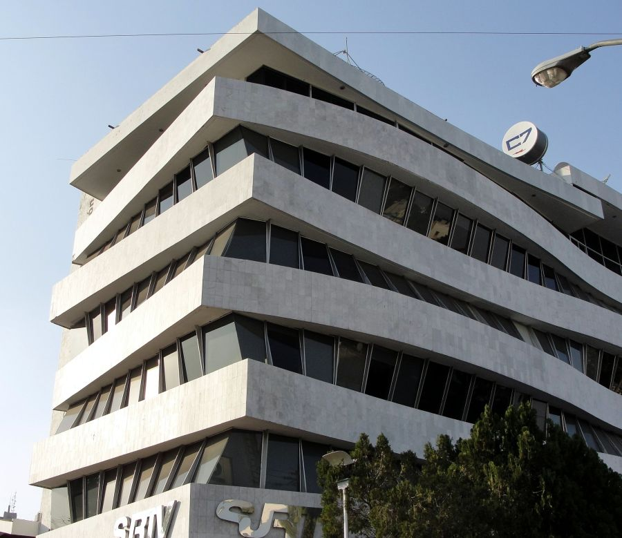 The astuteness and daring of Felix Aceves in the execution of this building, located in a very visible place on Mexico Avenue, has made it a point of reference among the people of Guadalajara.